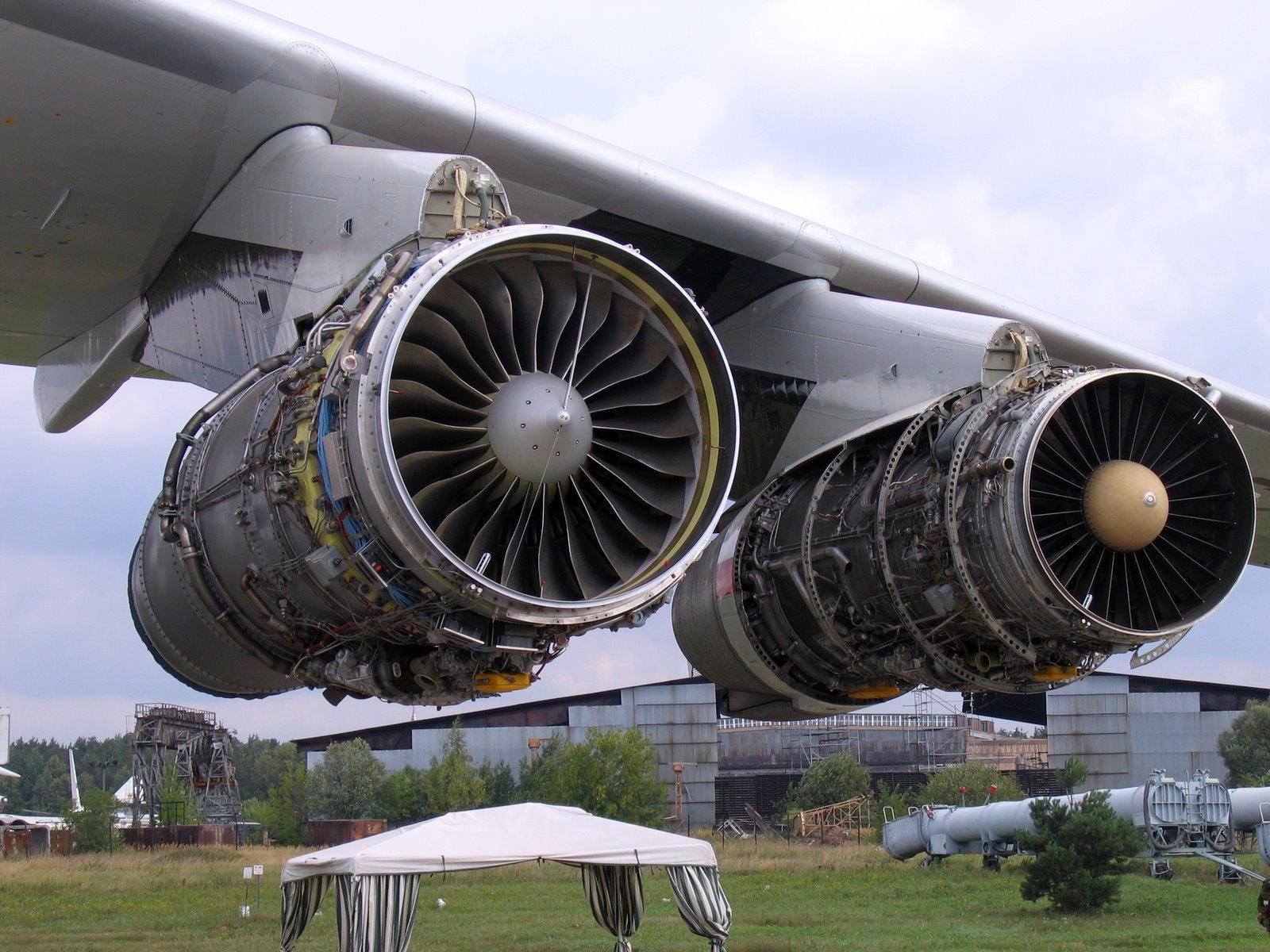 Soloviev aircraft engines (the left is an new model, D-30KP-3 series, and the right is an old model, D-30KP-2 series) of an Ilyushin Il-76TD, MAKS 2007 airshow.